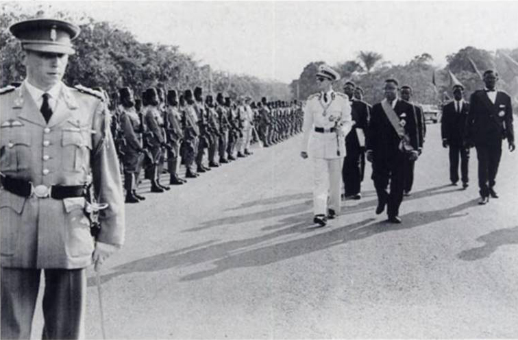 King Baudouin of Belgium reviews Congolese troops after his arrival in the Congo for independence ceremonies